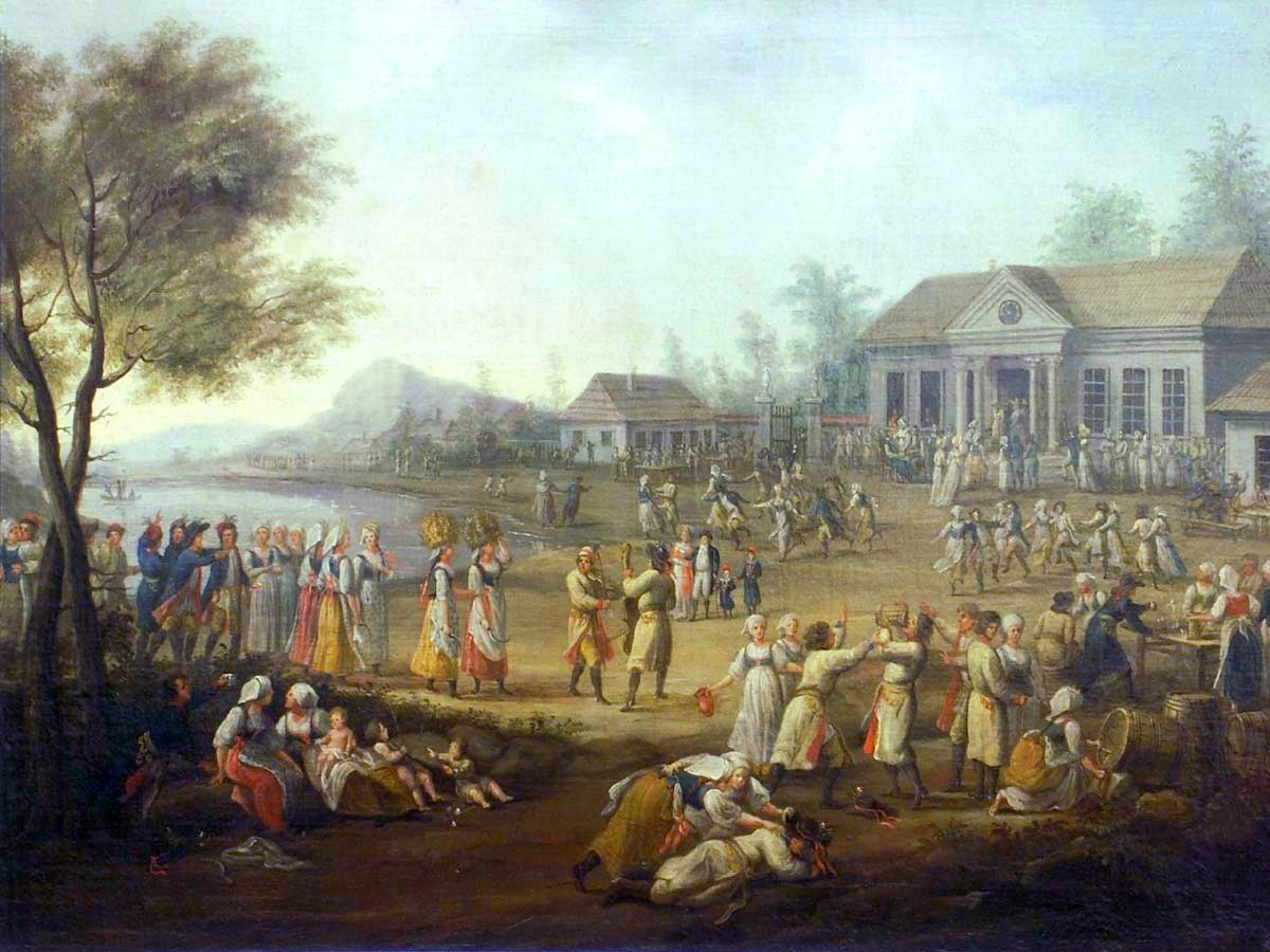 Michał Stachowicz. Dozhinki.